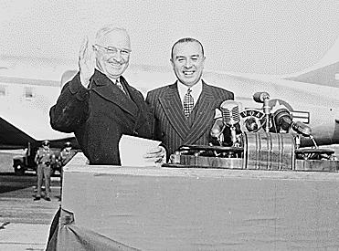 Gabriel González Videla, President of Chile, during a visit during a visit to President Truman at the White House, 04/14/1950